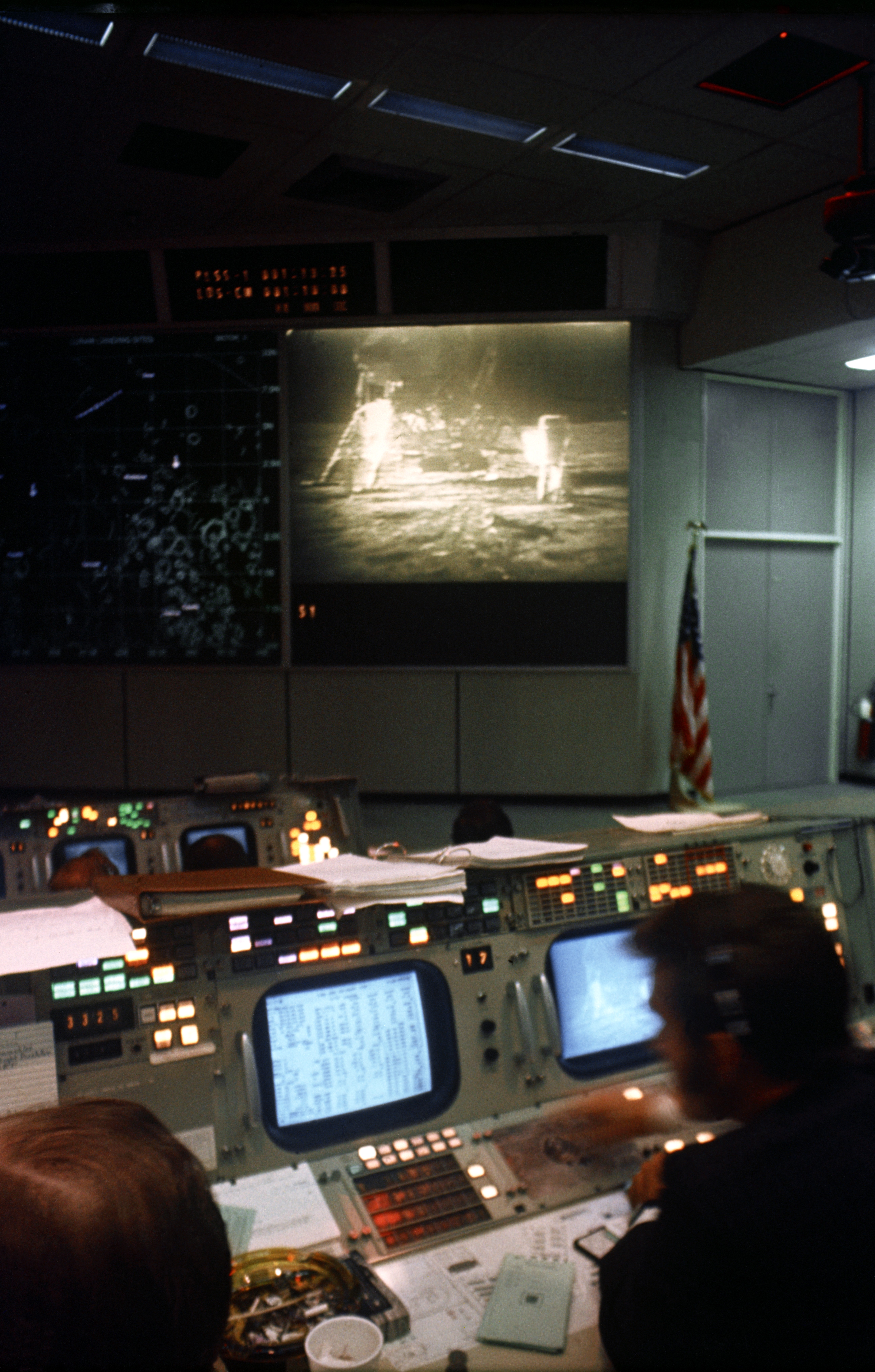 Mission Operations Control Room (MOCR) activities during the return trip of Apollo 11 on July 22, 1969. NASA-image id=S69-39815